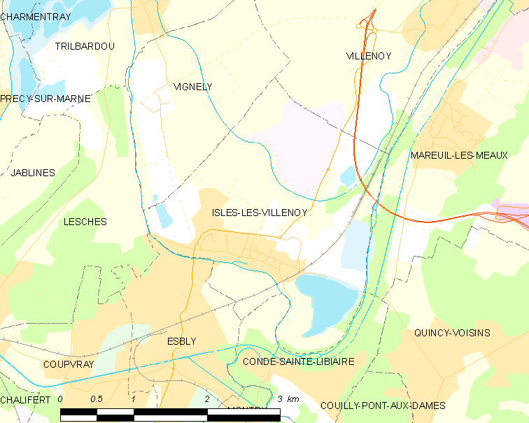 Map of French municipality Isles-lès-Villenoy